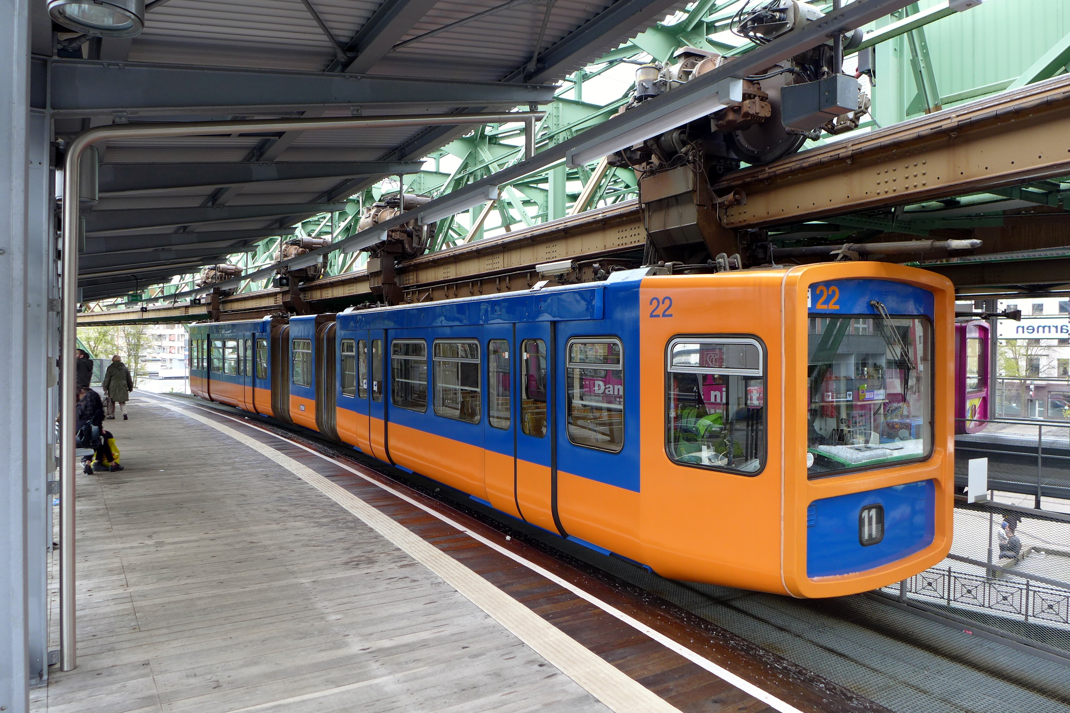 Wuppertal Suspension Railway GTW 72 unit no. 22, following its arrival at Oberbarmen Schwebebahn station with a train from Vohwinkel Schwebebahn.